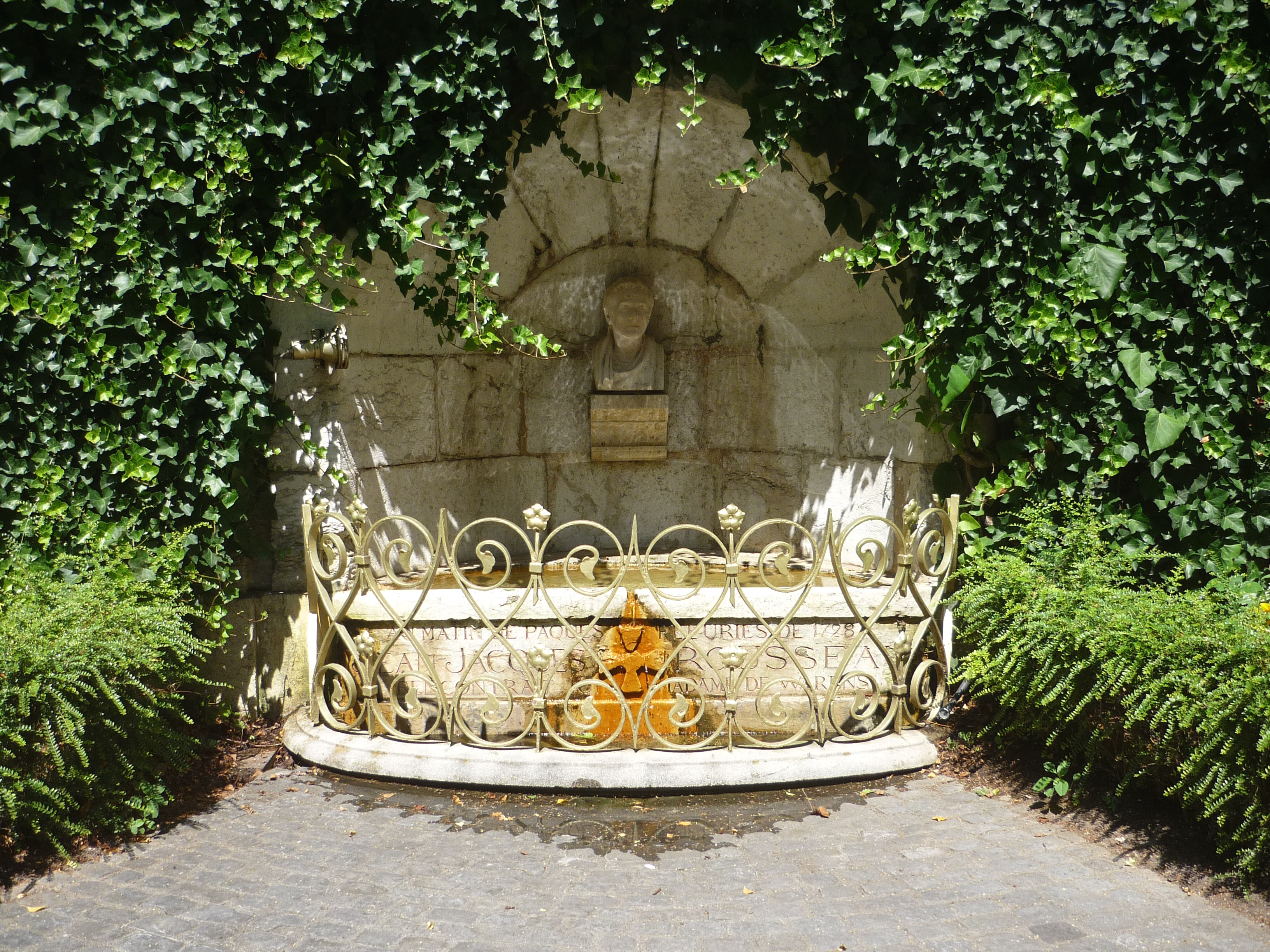 Fountain and bust of Jean-Jacques Rousseau located at the place of his first date with Madame de Warens, Annecy, Haute-Savoie, France